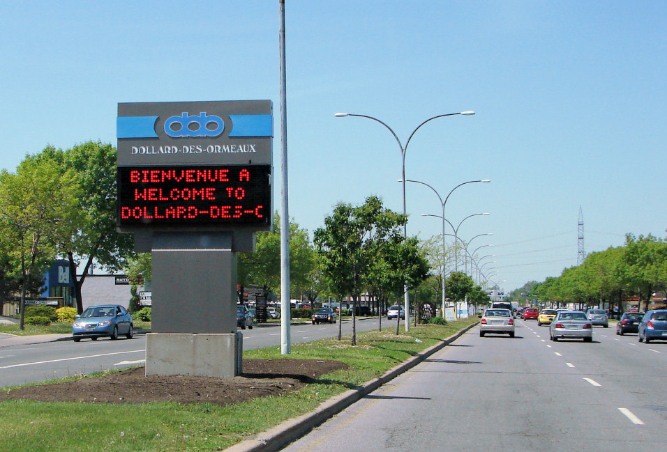 Dollard-des-Ormeaux, Quebec, Canada